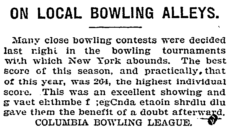 An October 30, 1903 article from The New York Times containing the linotype string etaoin shrdlu. "Many close bowling contests were decided / last night in the bowling tournaments / with which New York abounds. The best / score of this season, and practically, that / of this year, was 264, the highest individual / score. This was an excellent showing and / g vaet ehthmbe f ;egCnda etaoin shrdlu dlu / gave them the benefit of a doubt afterward."